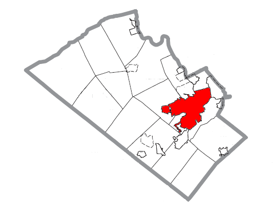 A map of Lehigh County showing Allentown, Pennsylvania highlighted on the map.